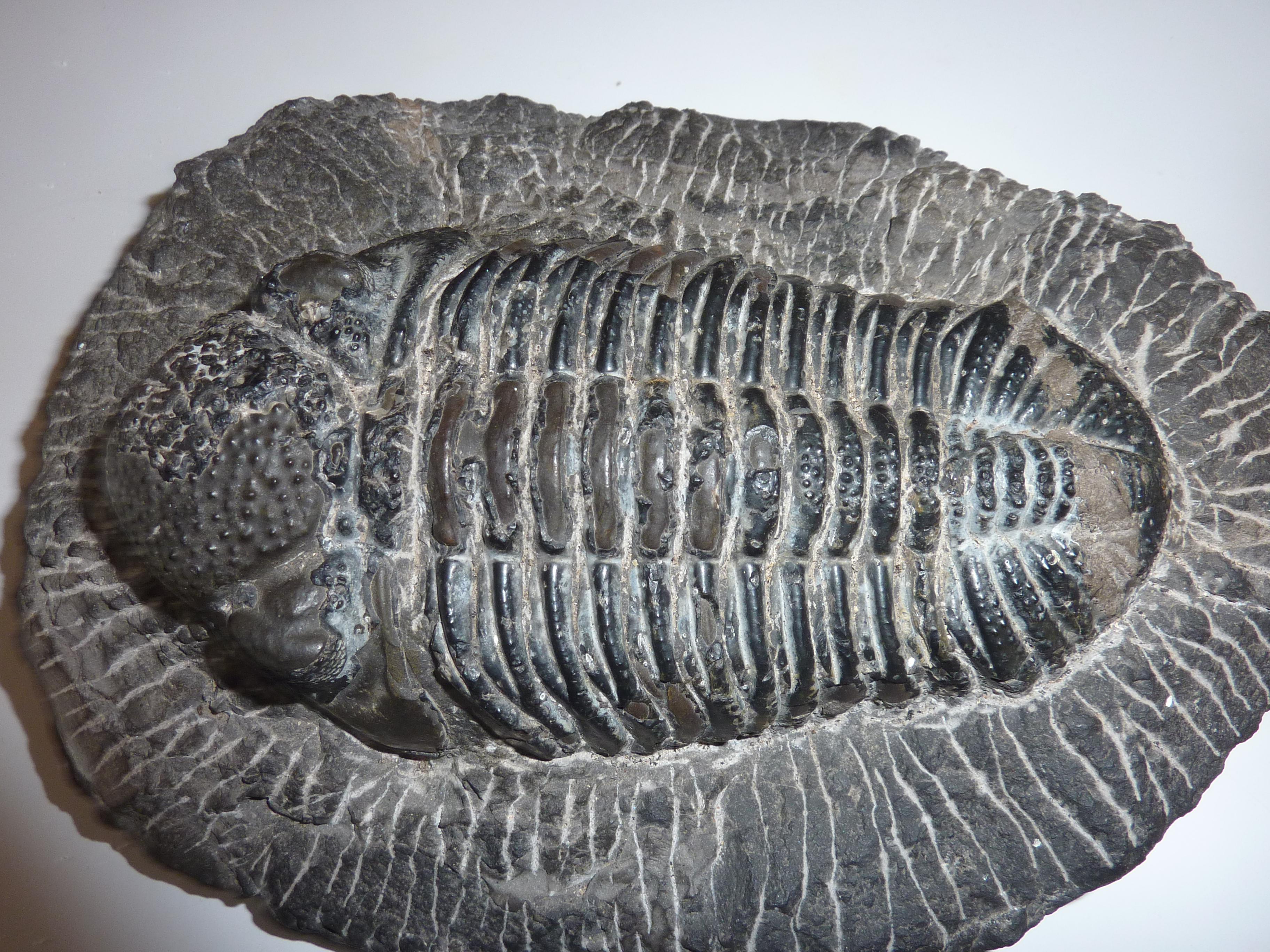 My very own trilobite Phacops! (a pet rock is so last year...)